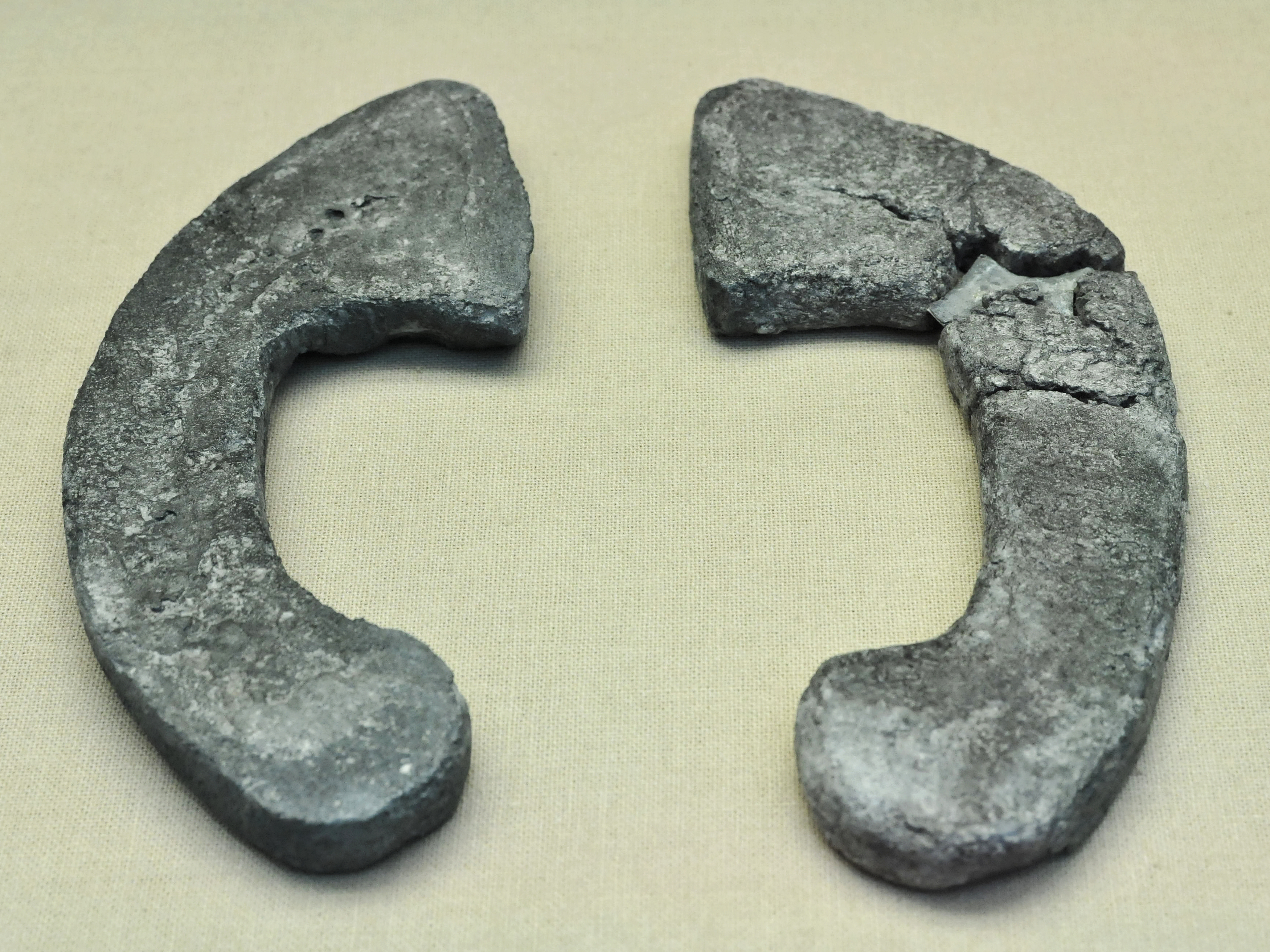 Pair of Greek jumping weights.